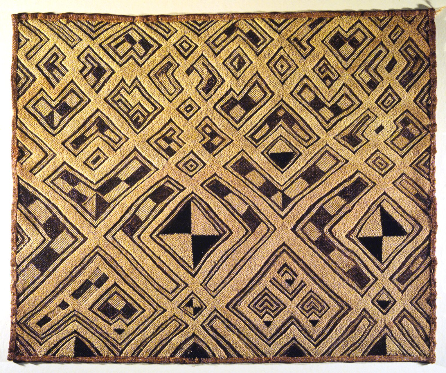 Raffia Cloth Panel Marked K313